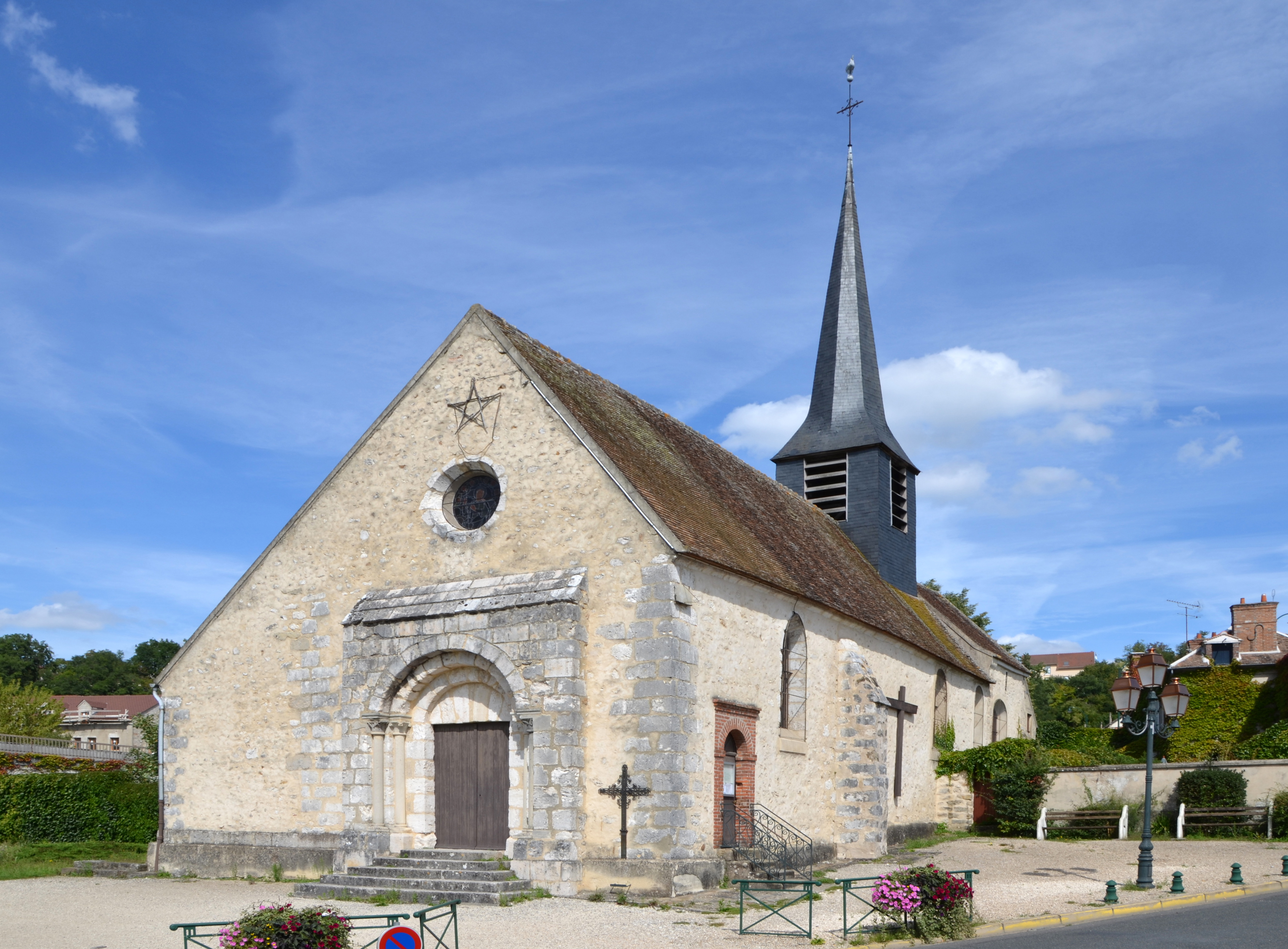 Church Notre-Dame in Champagne sur Seine, Seine et Marne, France